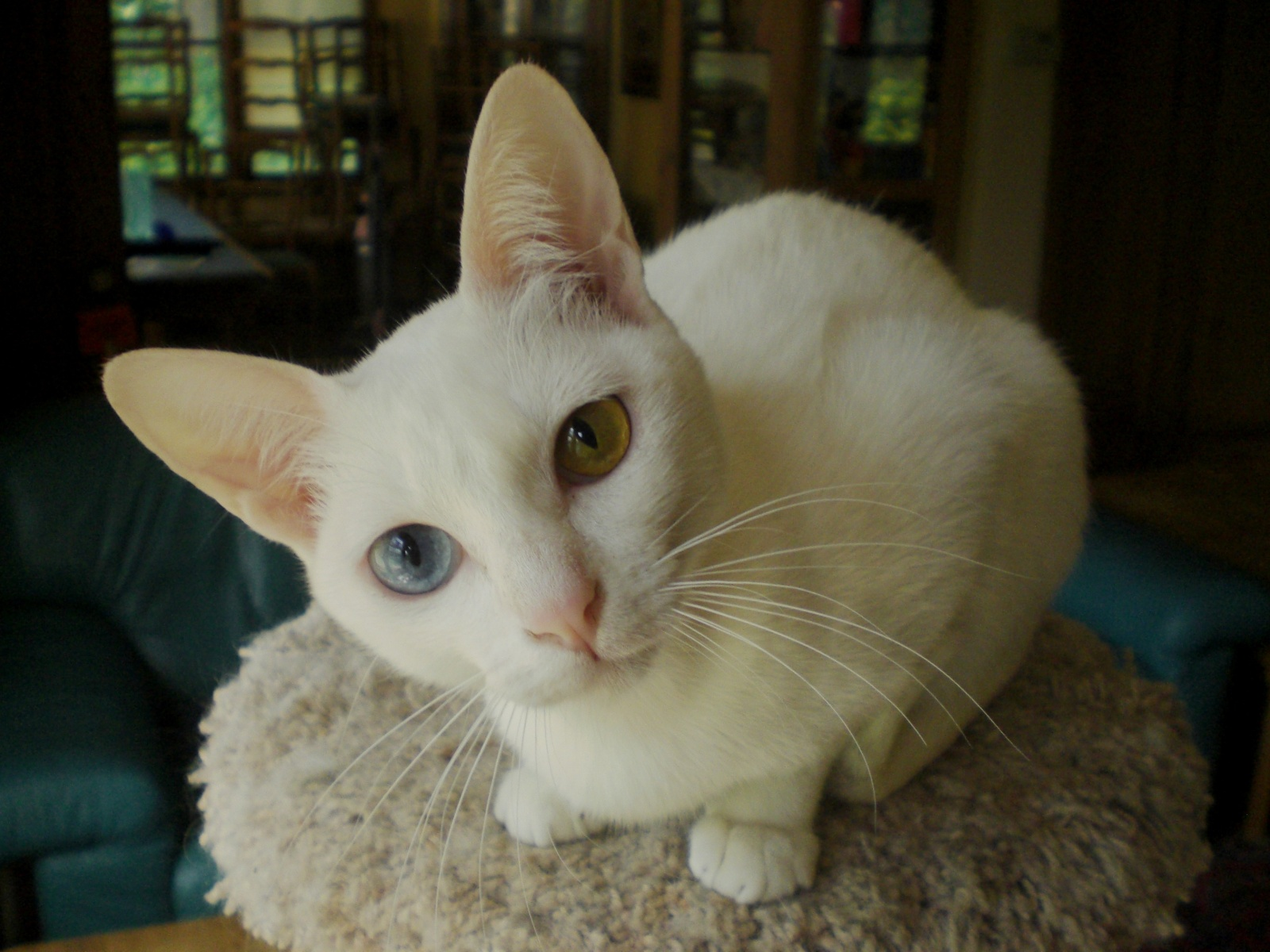 odd-eyed female Khao Manee cat "Leela"